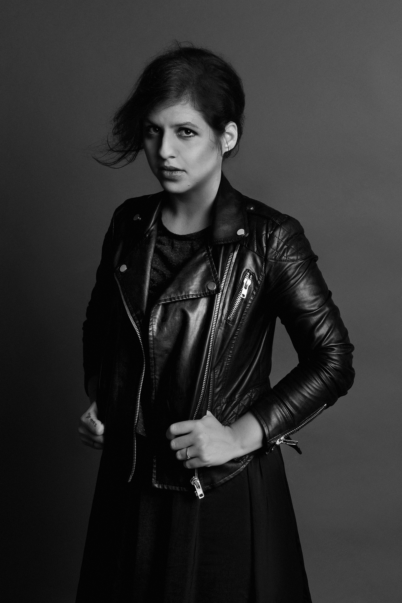 Self-Portrait of Vivienne Balla. Shot in 2015